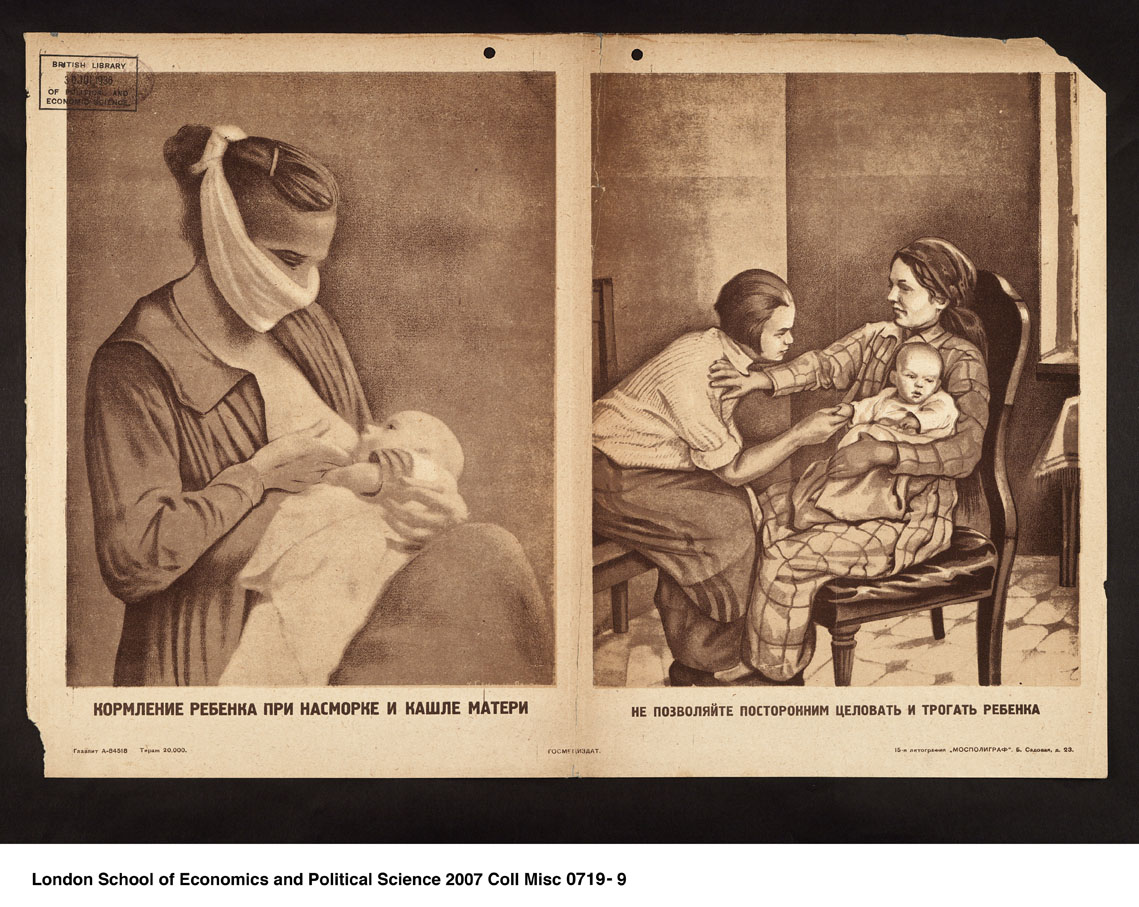 Two sepia illustrations, the first showing a breast-feeding mother with a cloth wrapped around her nose and mouth; the second showing a mother pushing another woman away from the baby on her lap. Printer: Mospoligraf Publisher: Gosmedizdat Place of Production: Moscow Date: 1930 Persistent URL: misc 0719/9')